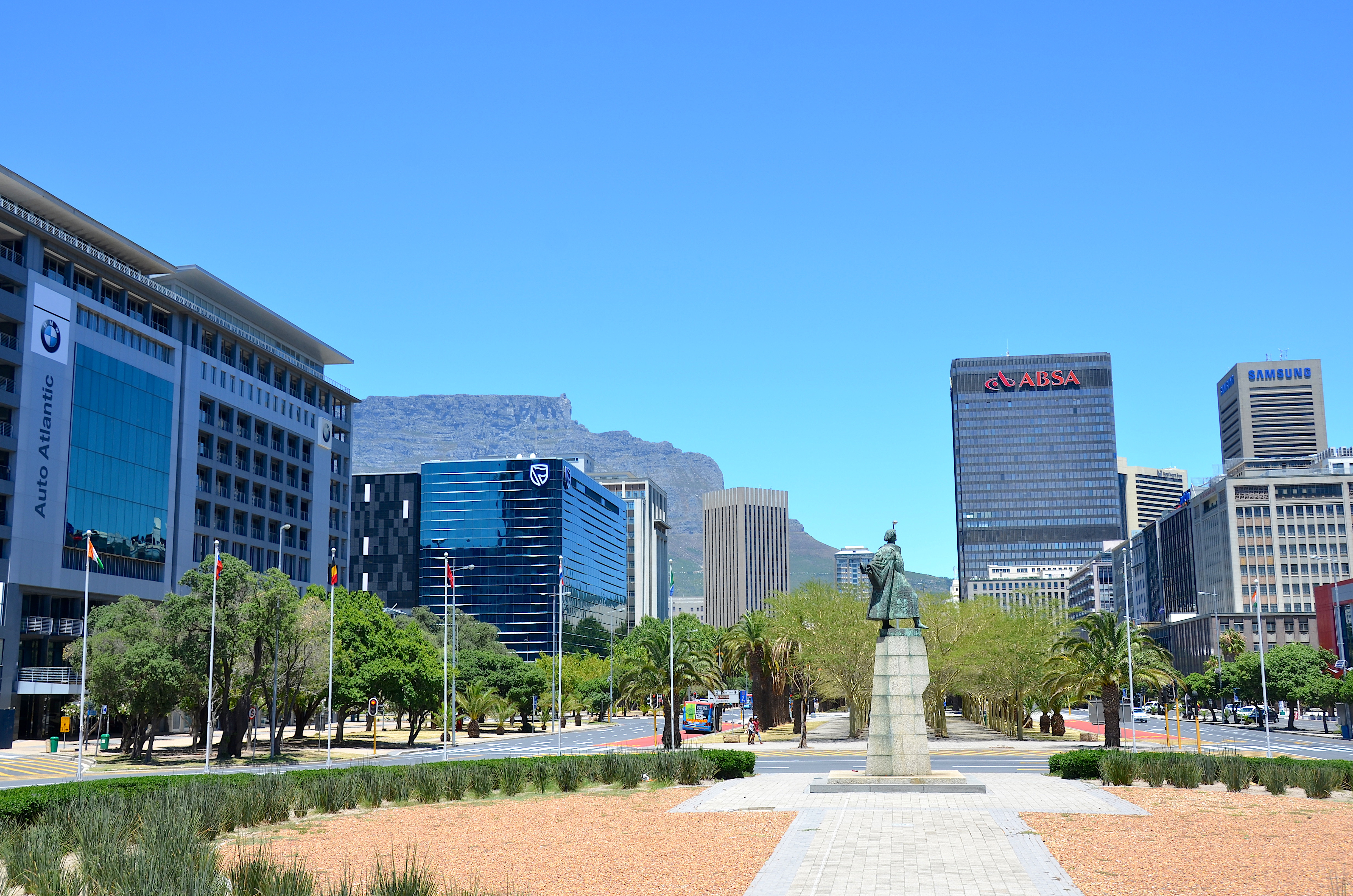 ABSA Centre and Table Mountain, Cape Town (2017)